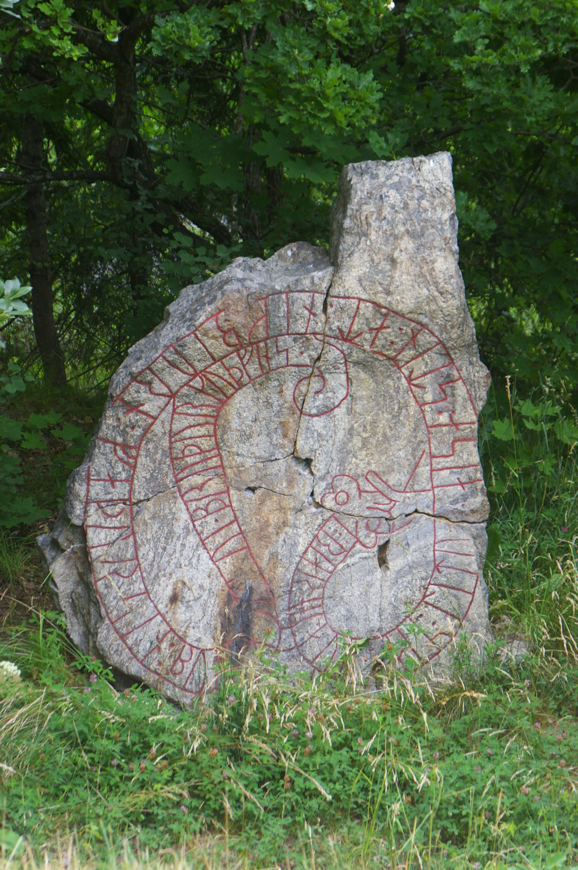 Bjarni and Geirr had the stone raised in memory of Nesbjôrn(?)/Nefbjôrn(?), their father ... Guðfinnr's brother.